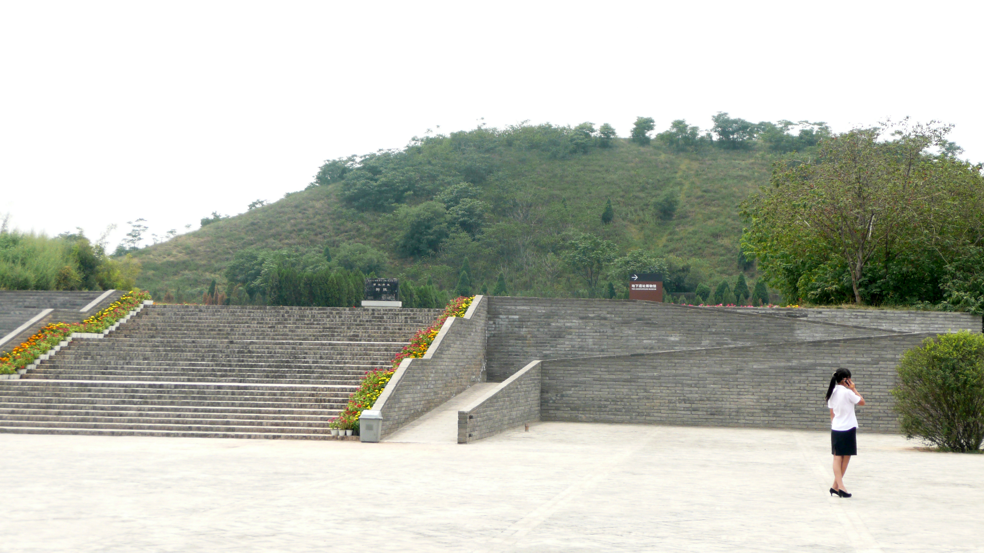 Han Yang Ling - Mausoleum of Jingdi, Han Emperor, near Xi'an